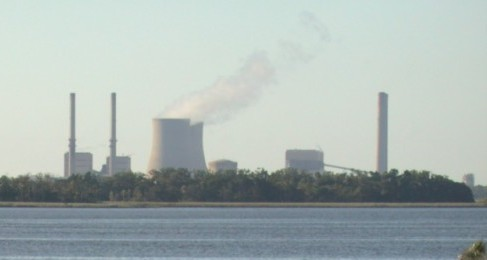 View of the Crystal River Energy Complex, including the Crystal River nuclear power plant, Citrus County, Florida. Image:Crystal river NPP afar.jpg cropped for use in article.